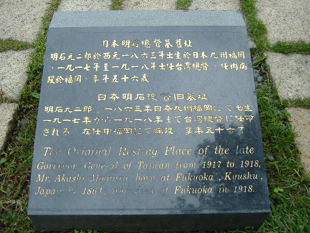 The Original Resting Place of the late Governor General Akashi